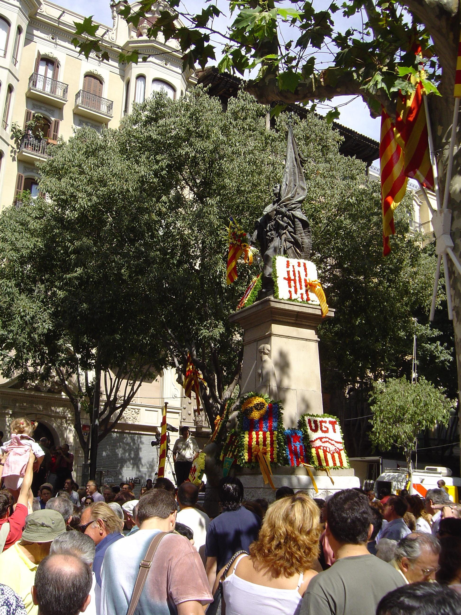 Rafael Casanova was a Catalan Military man who heroically resisted the Spanish troops in 1714. After a long siege, the city of Barcelona fell under the Bourbon troops on September 11, 1714, commemorated today as the National Day of Catalonia.